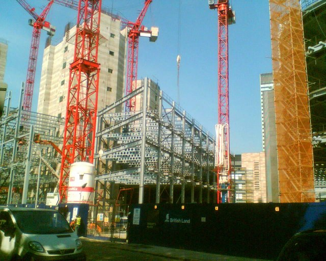 Steel structure to Regents Place From Osnaburgh Street on the Marylebone Road.